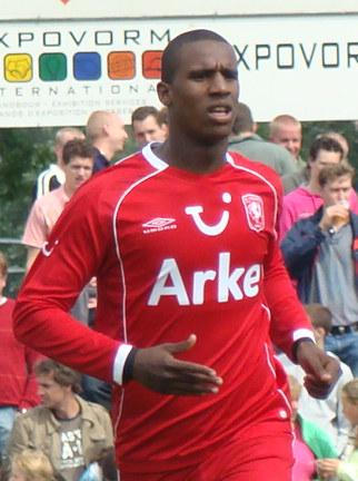 Image of the FC Twente-player Douglas Franco Teixeira